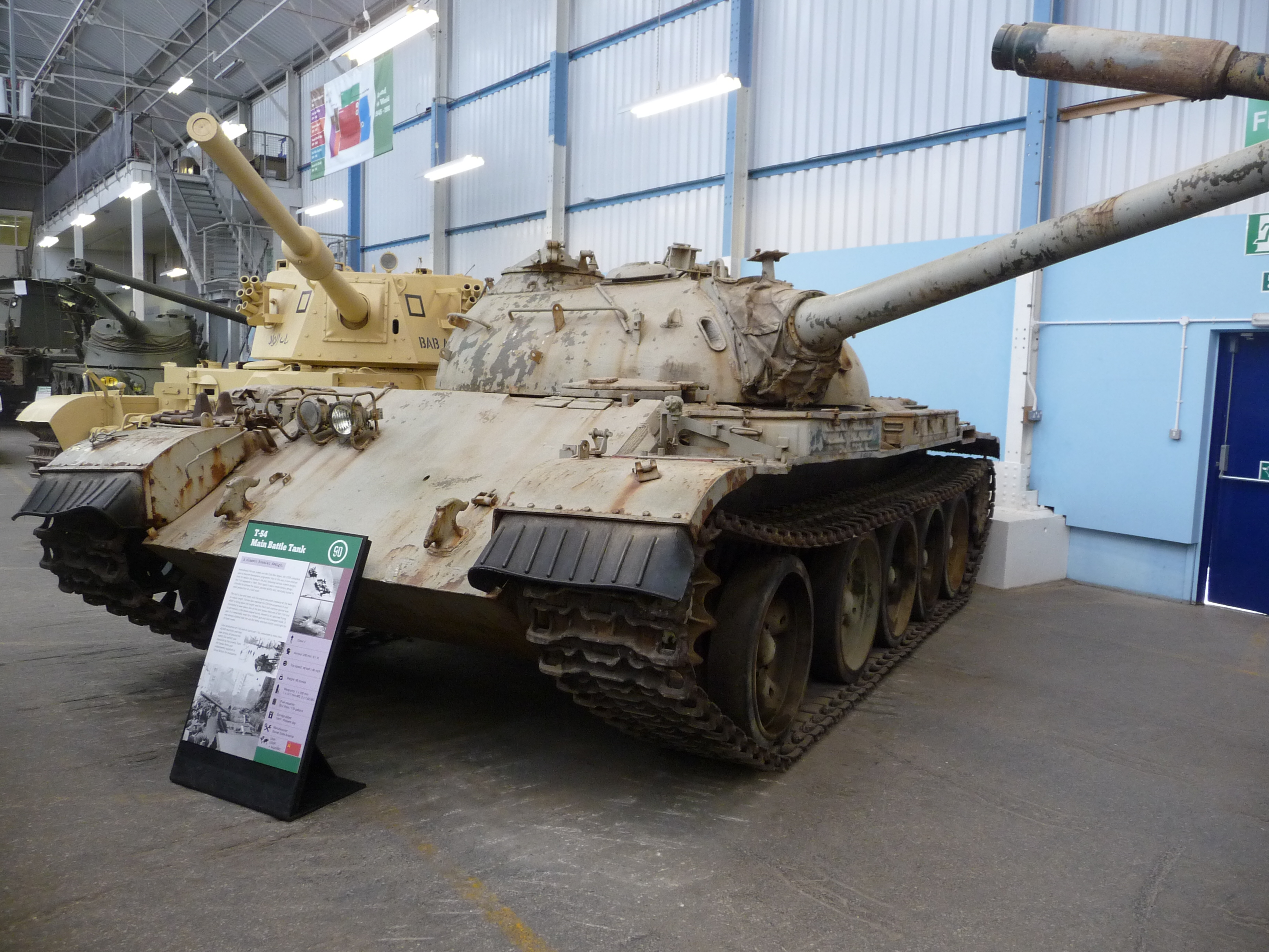 T-54 tank at the Bovington Tank Museum.